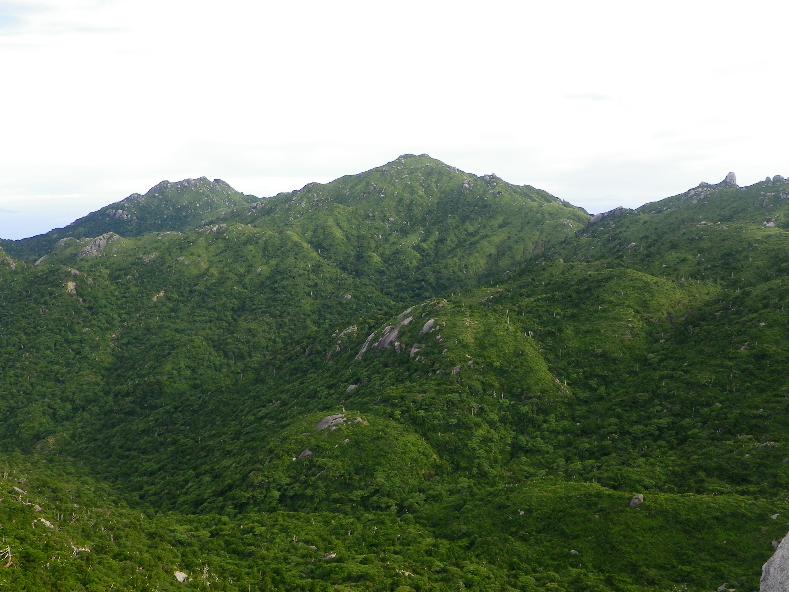 The 3 mountains (Mitake) in Yakushima, as seen from Mount Kuromi